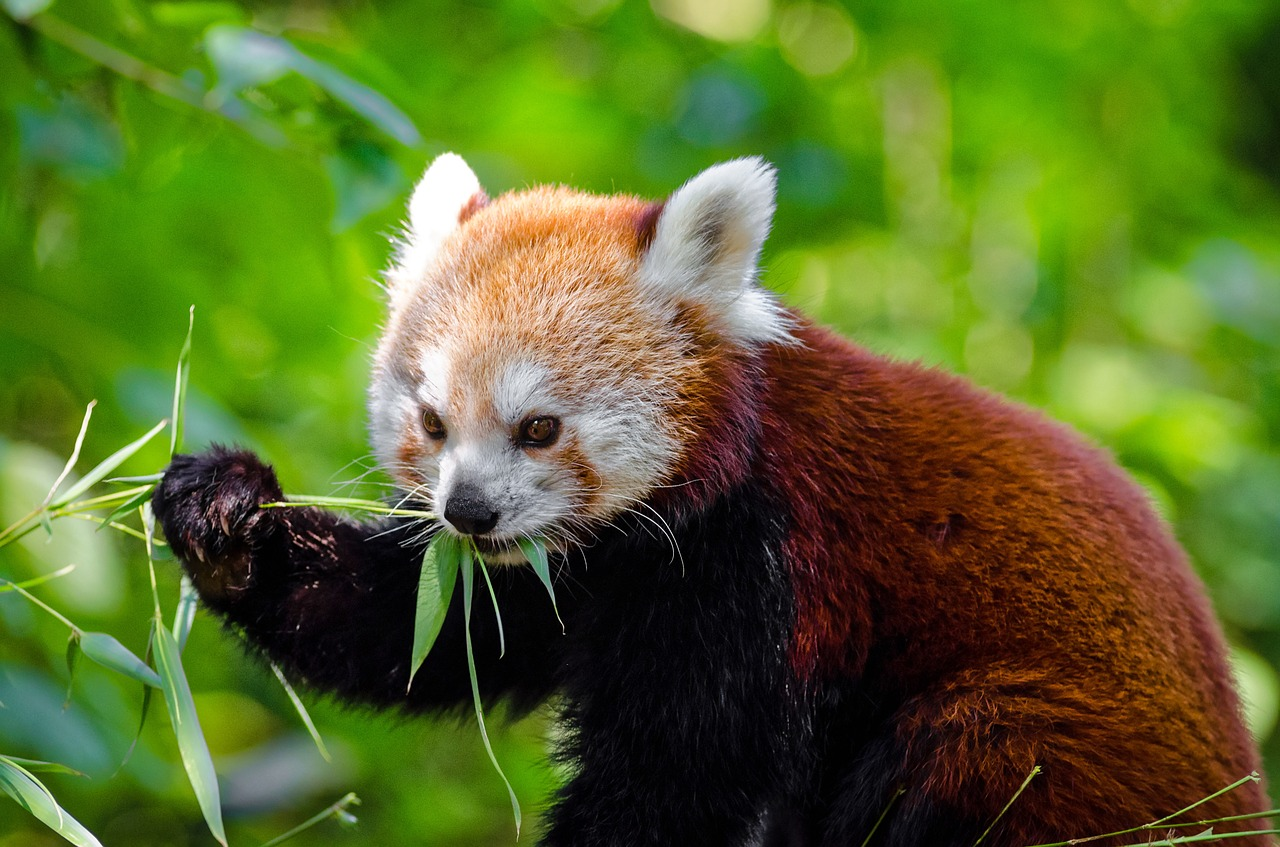 The Red Panda can be distinguished by its copper fur coat, and is a herbivore as seen by this photo.